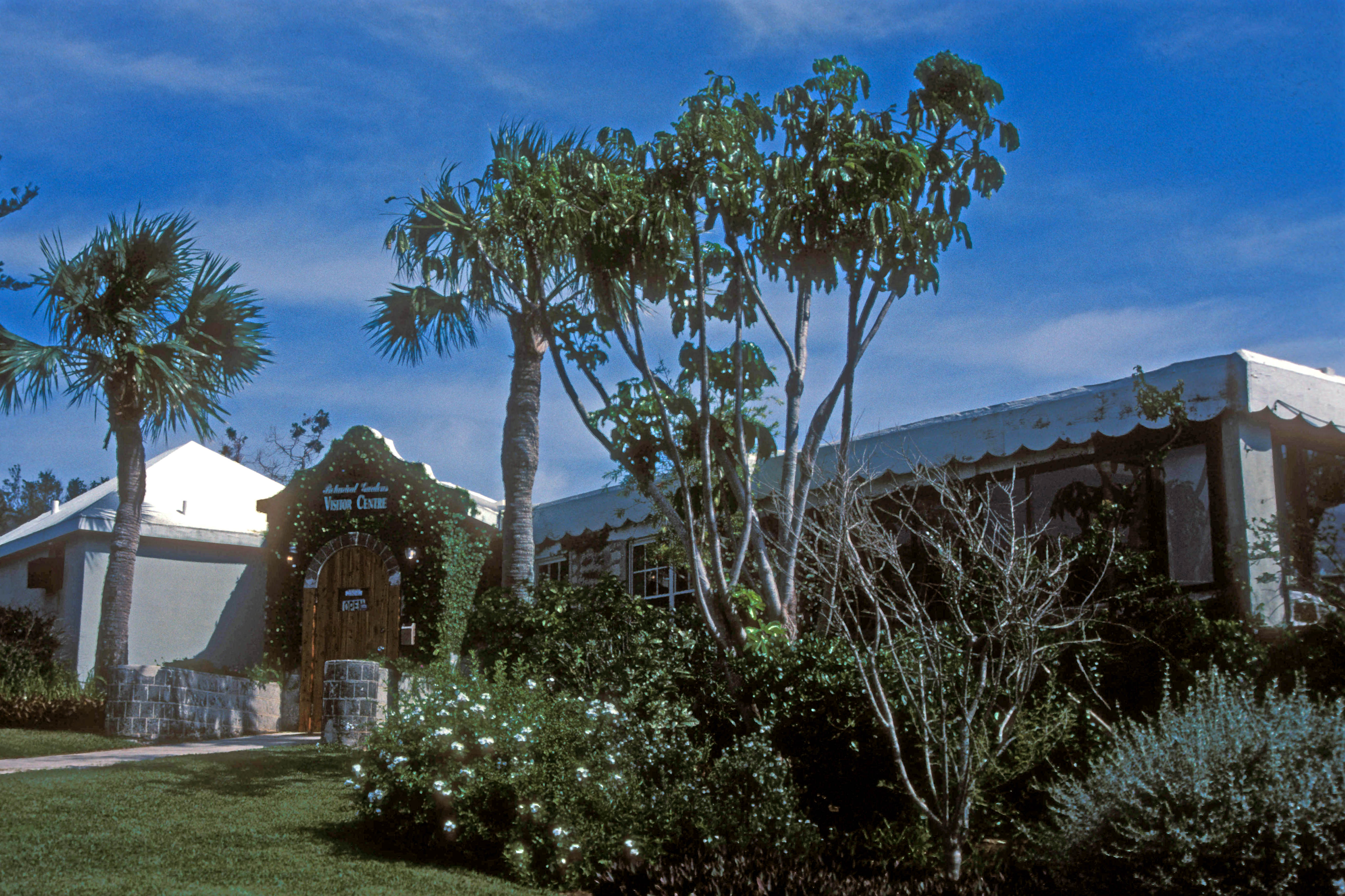 ON THE GROUNDS IS CAMDEN - THE OFFICIAL RESIDENCE OF THE PREMIER OF BERMUDA; USED FOR CEREMONIAL OCCASIONS